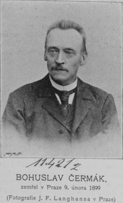 Photograph of Bohuslav Čermák (1846 - 1899), Czech librarian and poet.